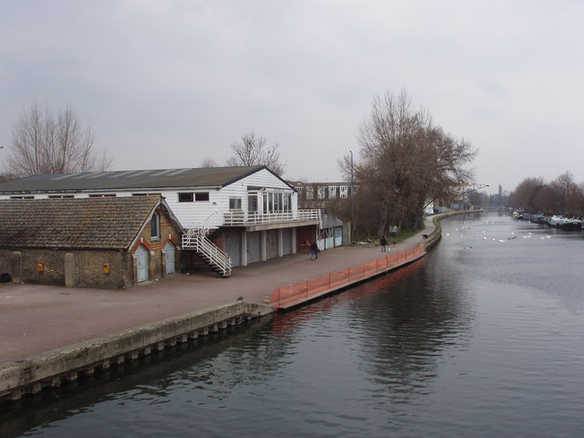 Lea Rowing Club, Spring Hill, Clapton. View north-west from the bridge leading to Walthamstow Marshes. See the Lea Rowing Club website .